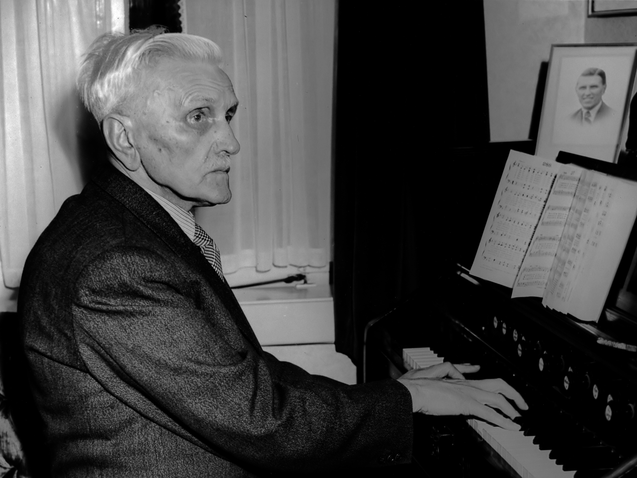 Evangelist en samensteller van de naar hem genoemde zangbundel Johannes de Heer achter het harmonium 18 mei 1951